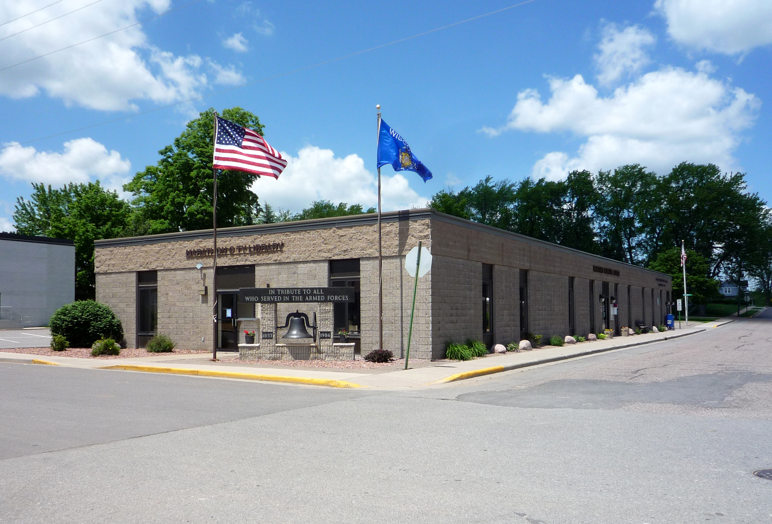 Library and city hall, Marathon City, Wisconsin, USA.